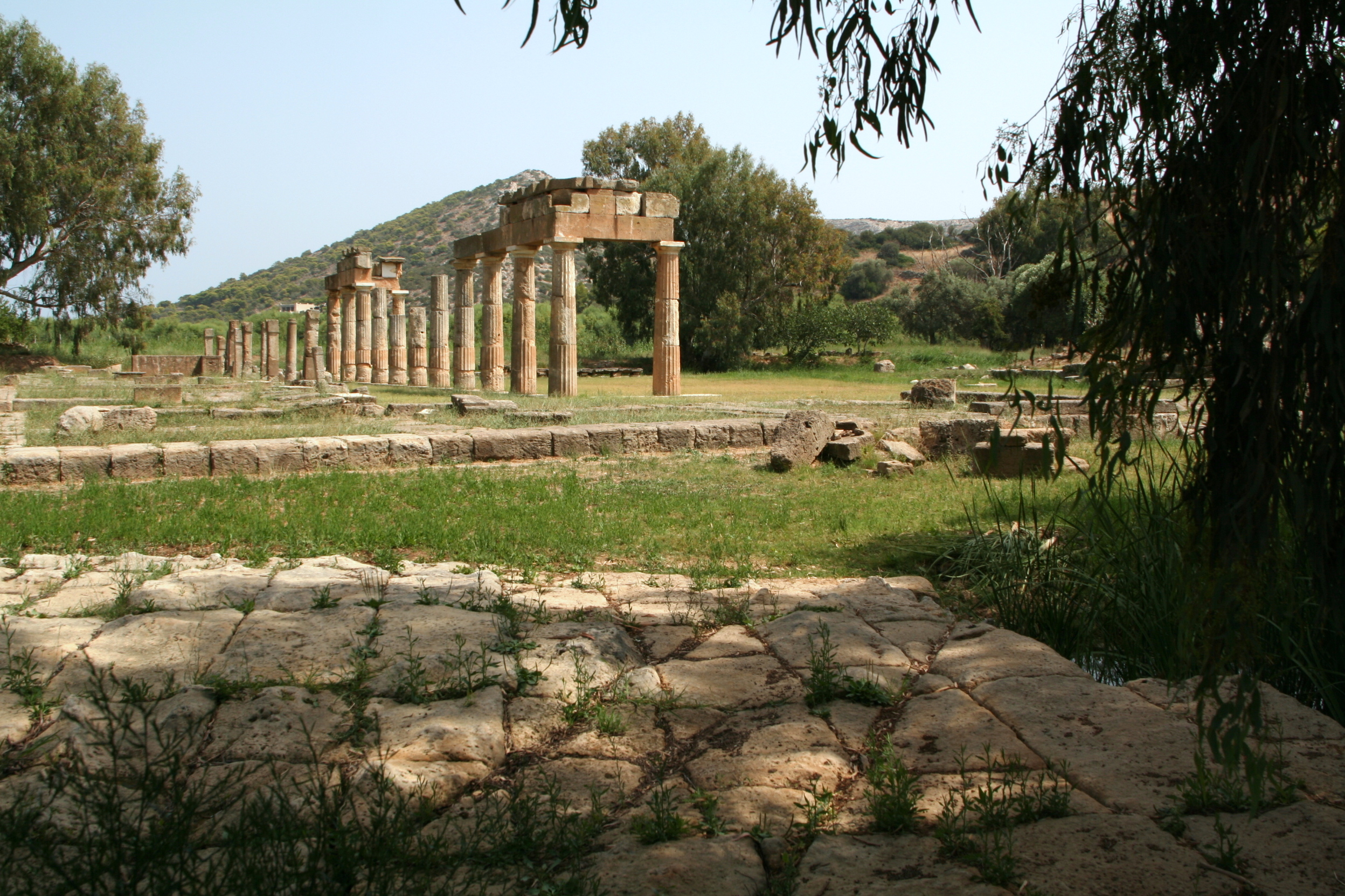 Π-shaped stoa and Classical Bridge, Brauron